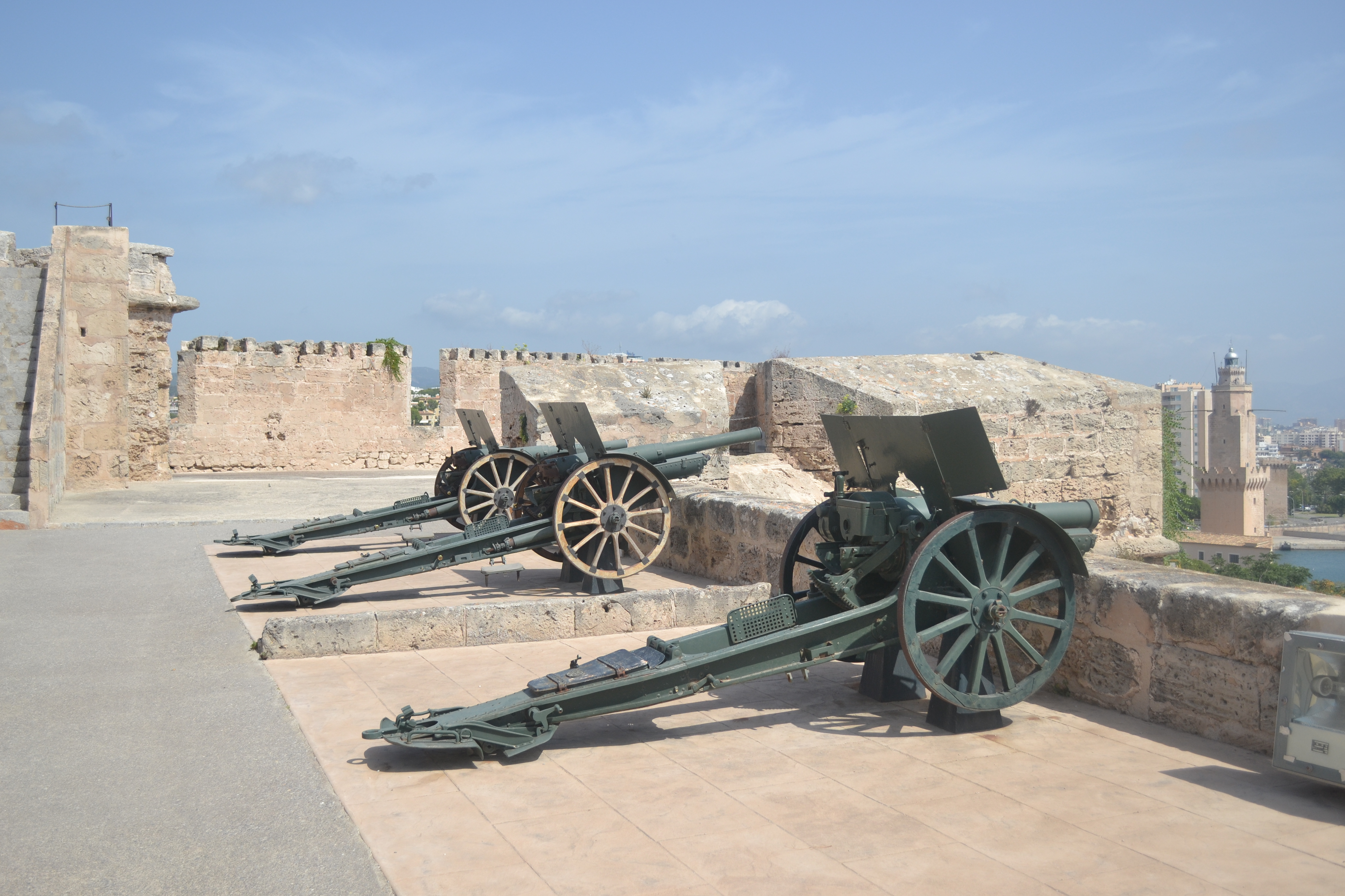 Several canons in the interior of the Museum of San Carles.